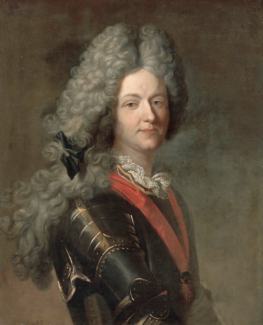 Portrait of Jacobo Fitz-James Stuart y Burke (James Fitz-James Stuart) 2nd Duke of Berwick and 2nd Duke of Liria and Xérica